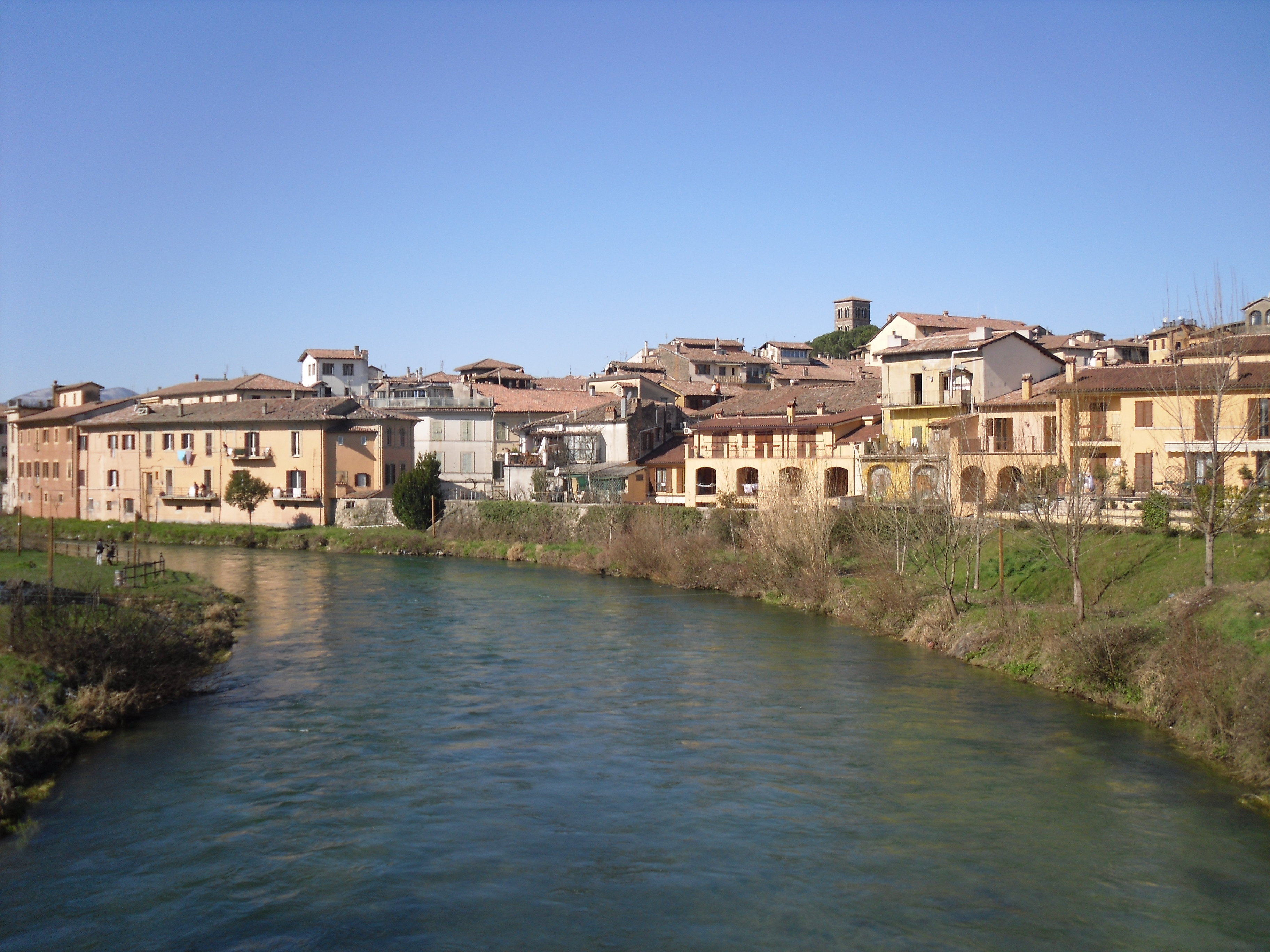 The Velino river as seen from the footbridge that connects San Francesco square with Cavour square - Rieti, Italy